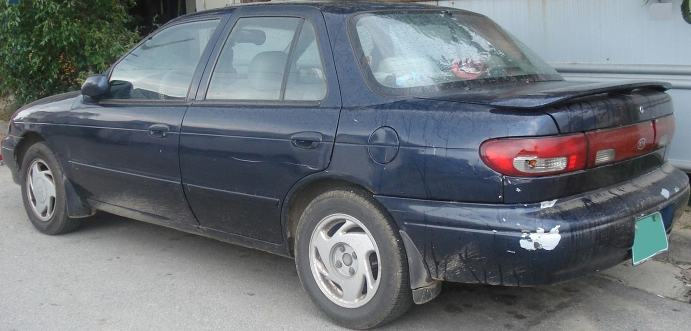 Kia New Sephia